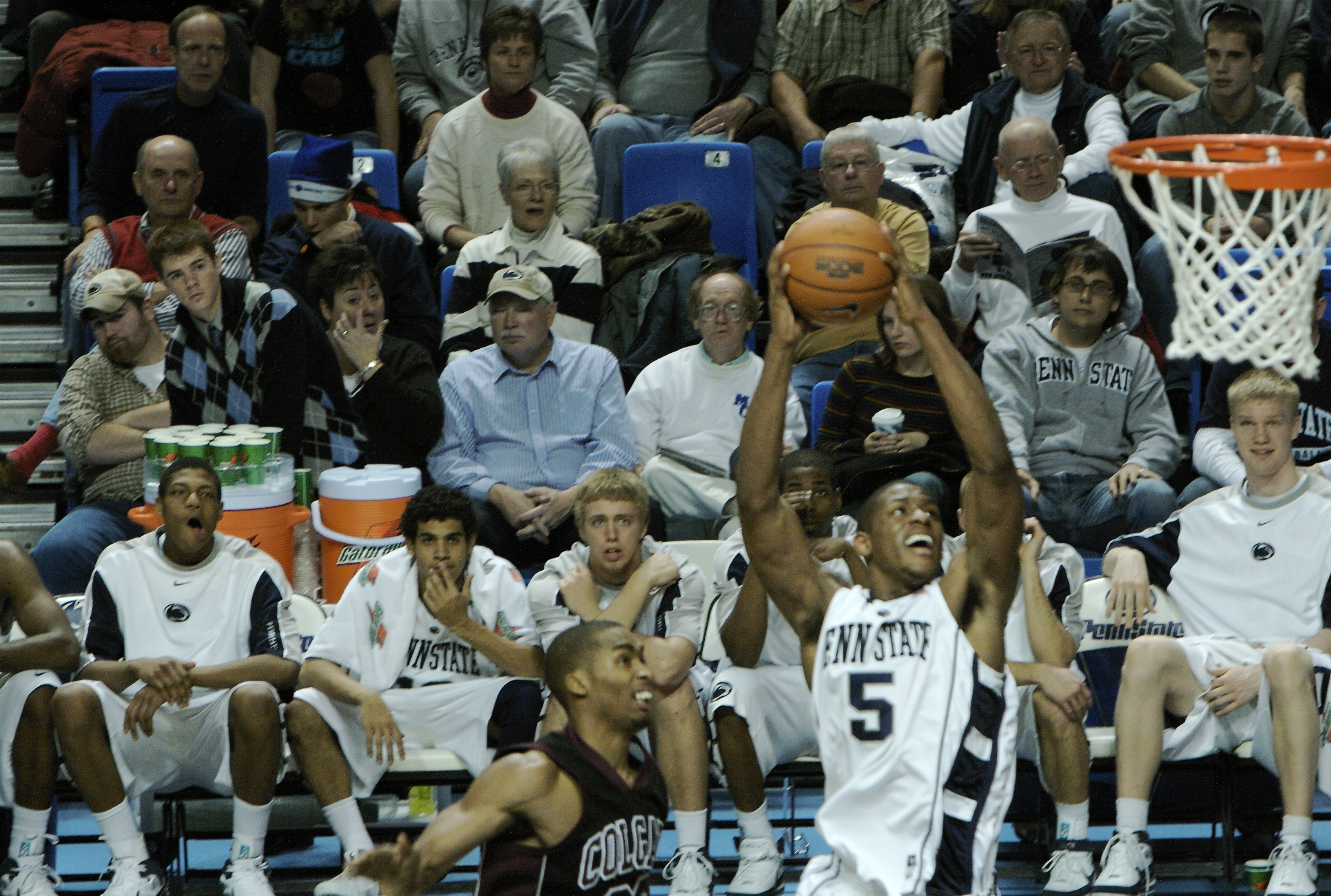 Geary Claxton makes a slam dunk for Penn State against Colgate.Claxton Dunk